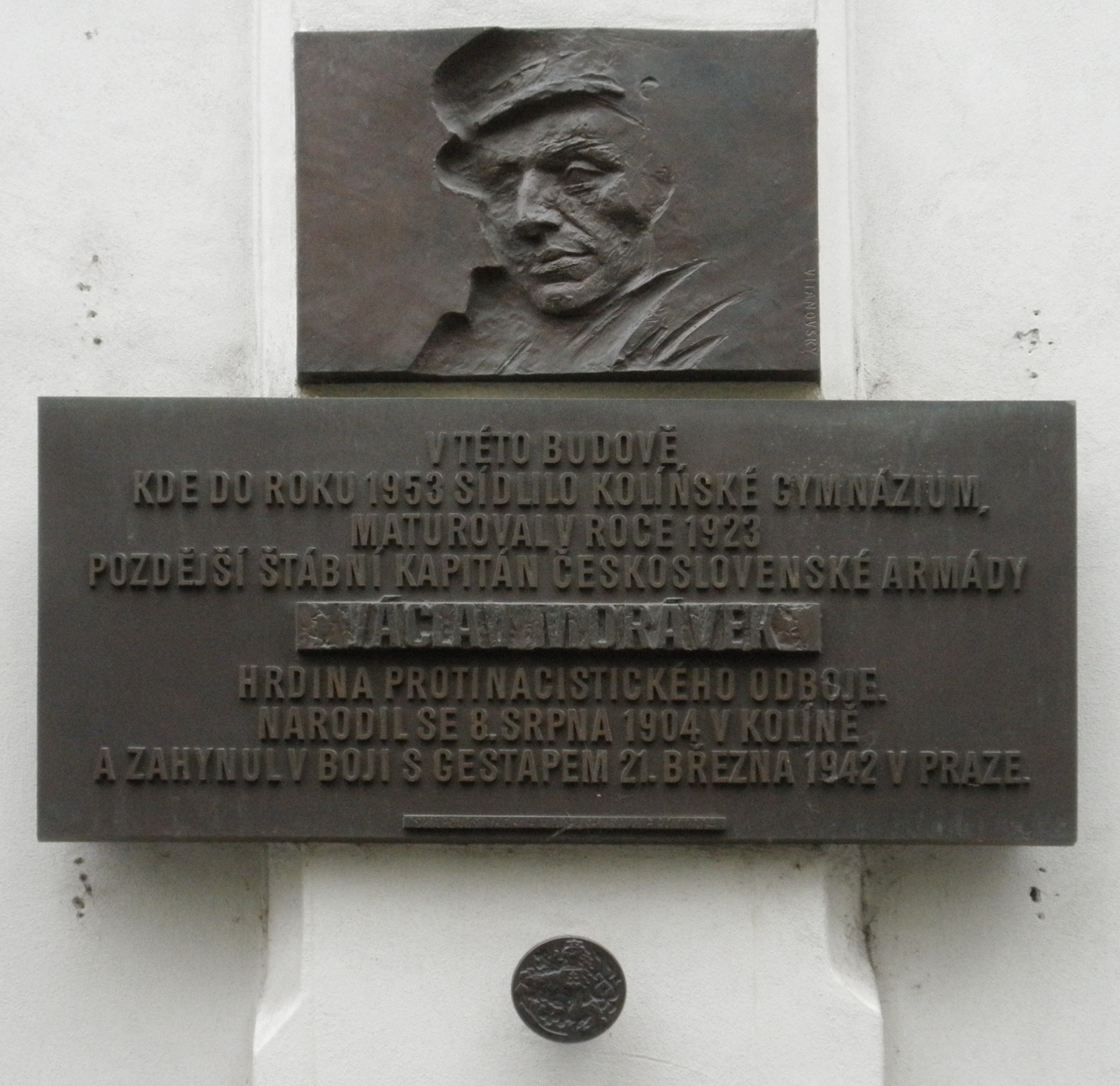 Photo of memorial plaque to Václav Morávek in Kutnohorská street in Kolín. The plaque was made by Michal Vitanovský in 2004.